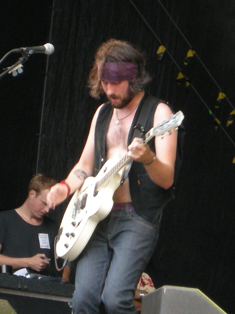 Lars Strömberg, The (International) Noise Conspiracy, at Sonisphere Sweden 2009